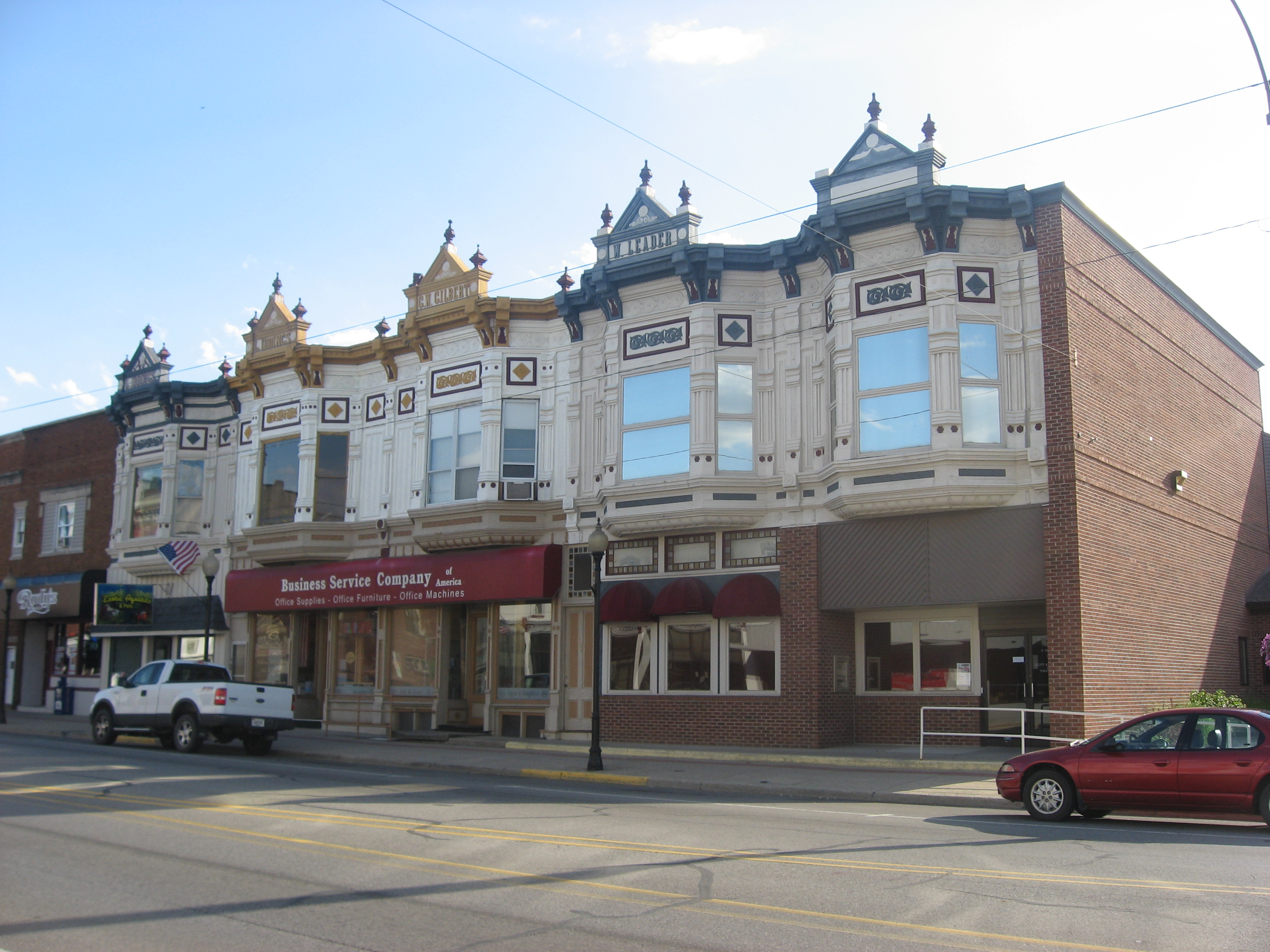 Front and southern side of the Iddings-Gilbert-Leader-Anderson Block, located at 105-113 N. Main Street in Kendallville, Indiana, United States. Built in 1891, it is listed on the National Register of Historic Places, and it is part of a Register-listed historic district, the Kendallville Downtown Historic District.